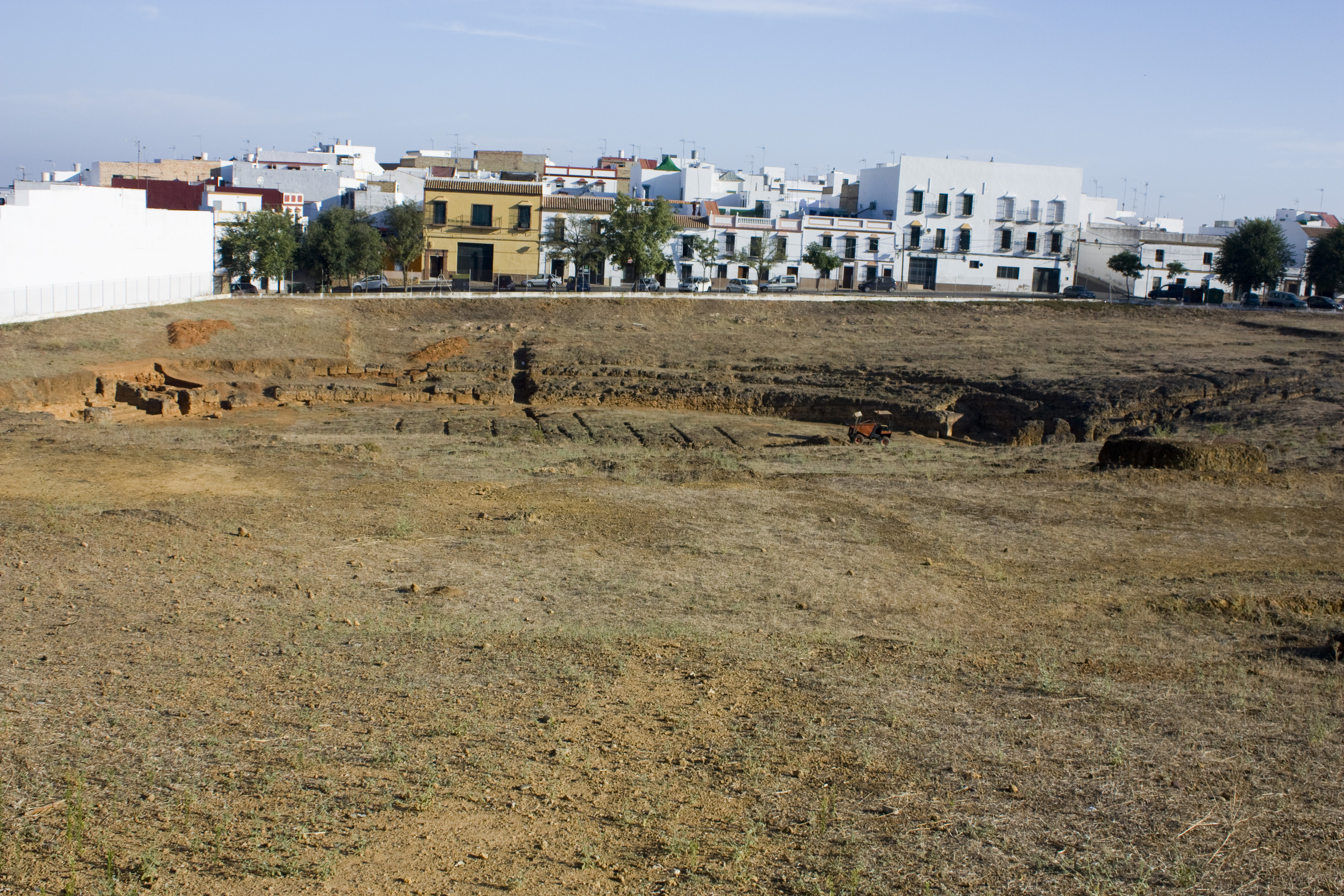 Excavations at the Roman theater: only a part of the arena and the first rows of terraces are exposed up.